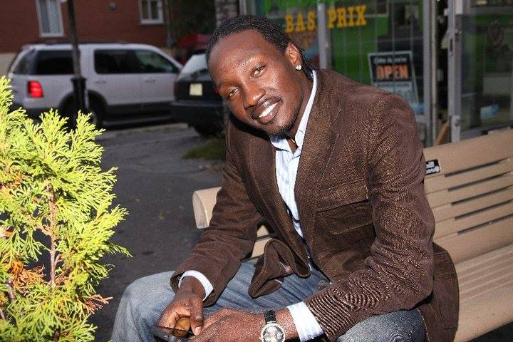 Graphy